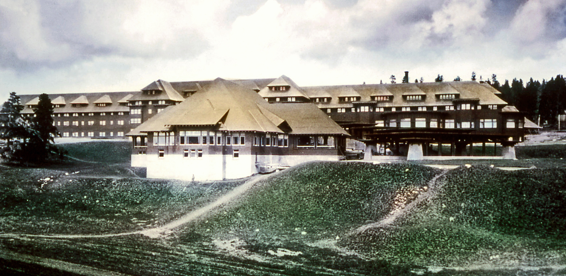 Canyon Hotel, Yellowstone National Park, from NPS slide collection